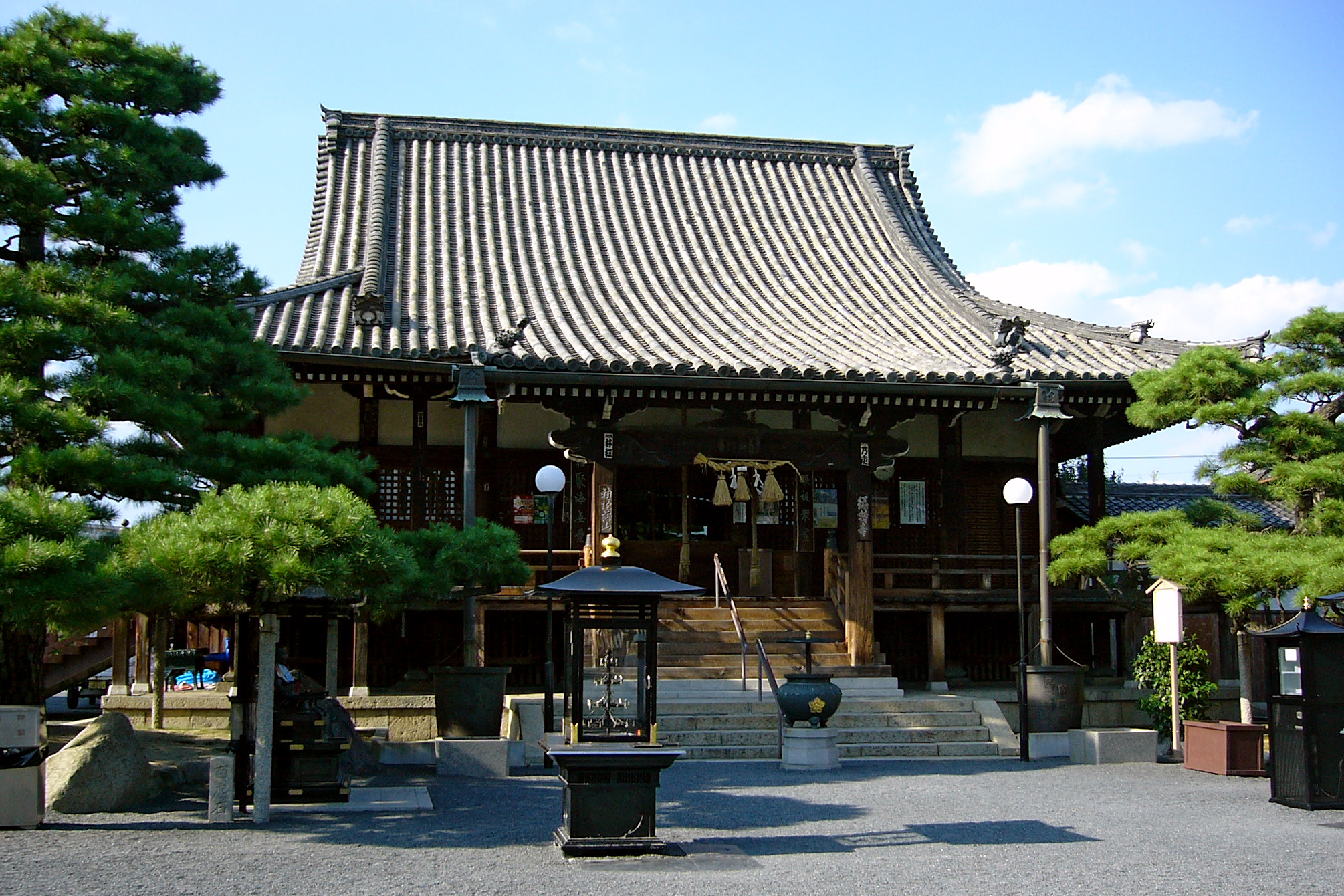 Sojiji in Ibaraki City, Osaka prefecture, Japan